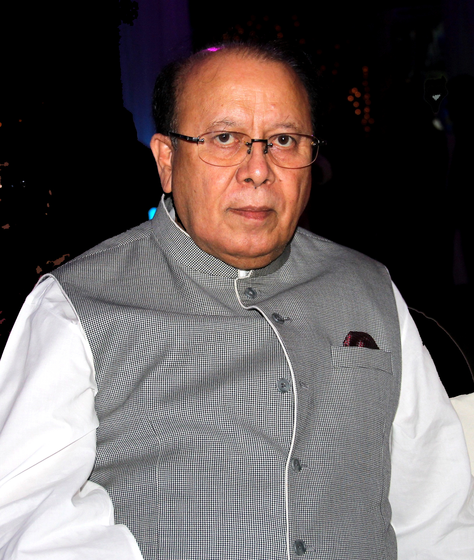 Morshed Khan Portrait